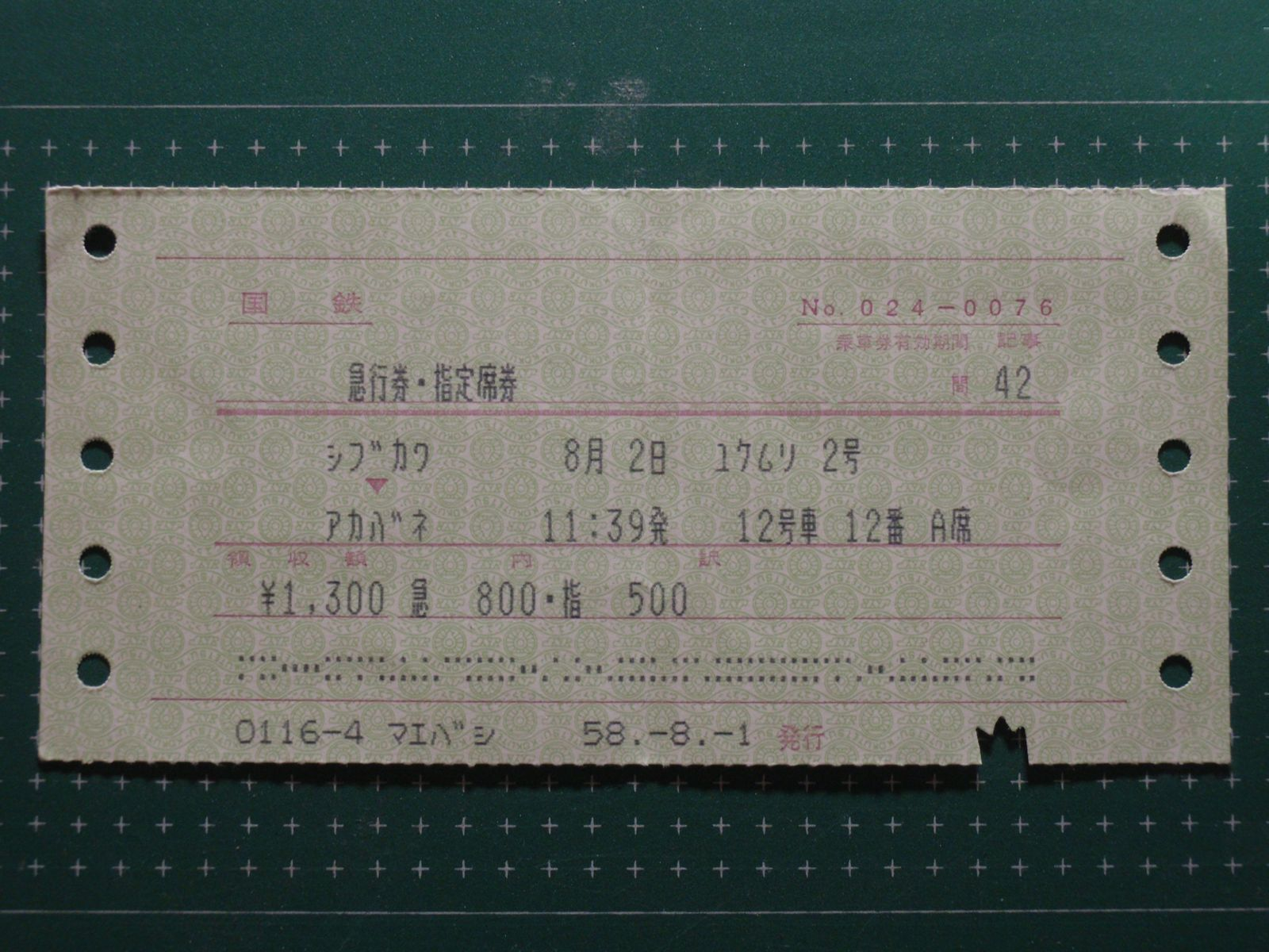 Express and reserved seat ticket of Japanese National Railways for the Yukemuri #2 train, valid from Maebashi to Akabane, issued through the MARS 105 system